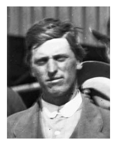 Portrait of Charles H. Sharman at UPRR Golden Spike ceremony. this is from the Andrew Russell photograph of engineers at the ceremony